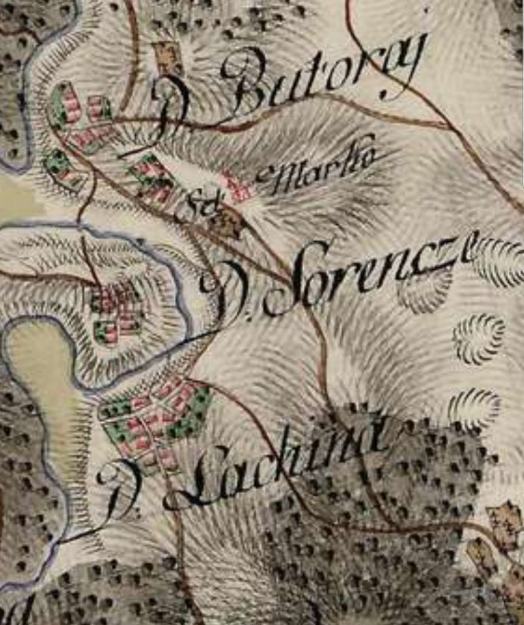 D. Sorencze [aka Zorenci, Crnomelj, Slovenia]. First Military Survey Map (1763-1787).